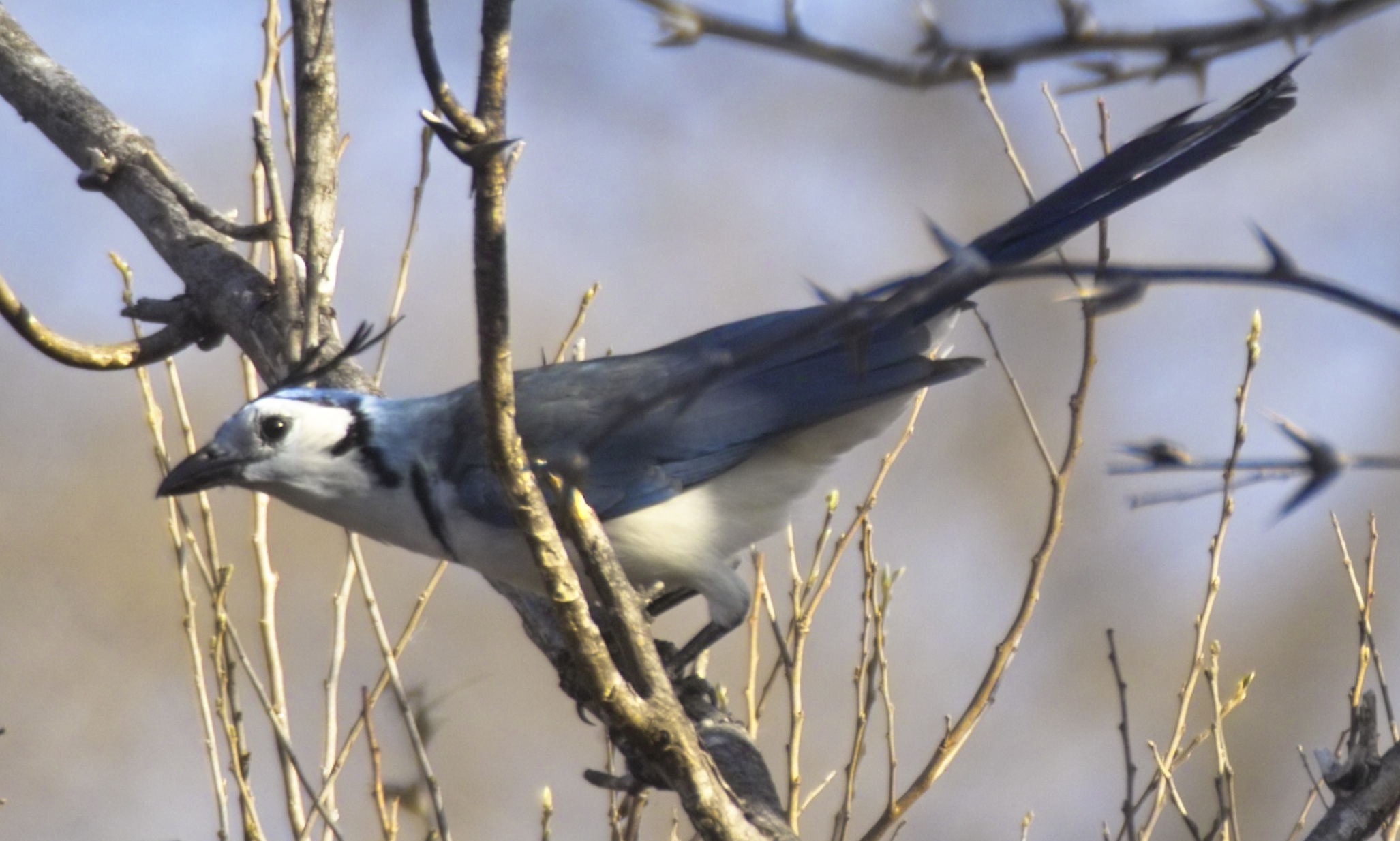 A White-throated Magpie-Jay in Costa Rica province of Guanacaste near Liberia.